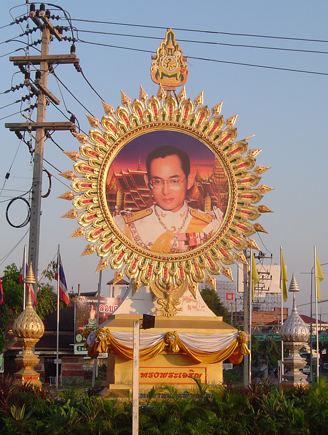 Monument to King Bhumibol Adulyadej (Rama IX) of Thailand. Spotted in Phitsanulok, Thailand